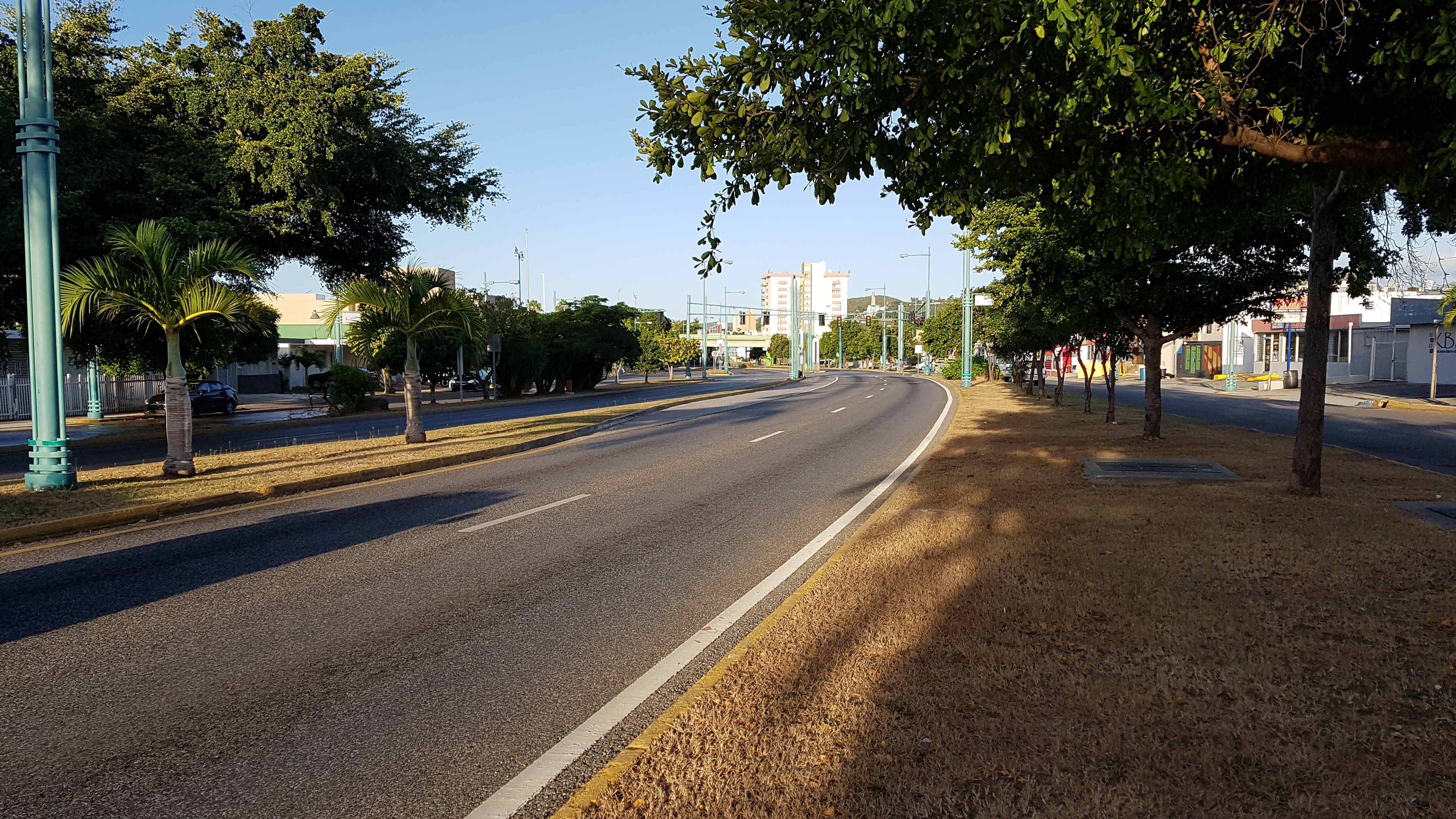 Bulevar Miguel Pou, mirando hacia el oeste, en Barrio San Anton, Ponce, PR (20181230 074625)